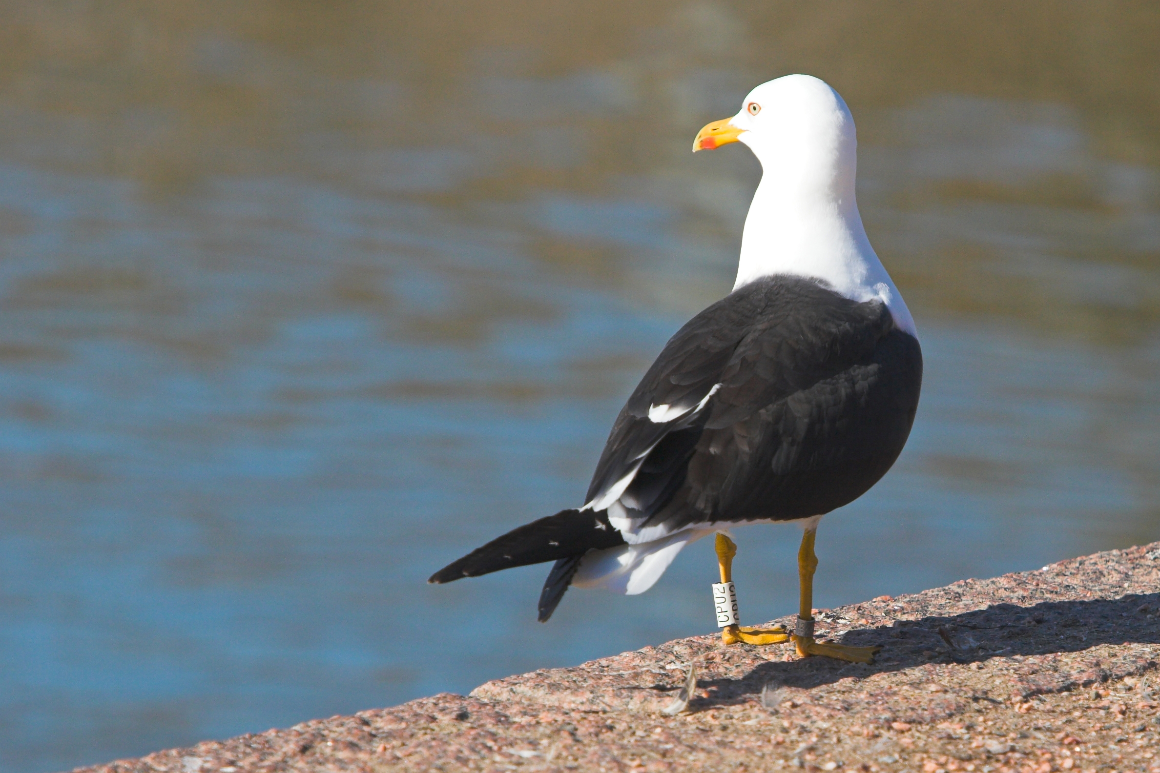 A ringed lesser black-backed gull (Larus fuscus fuscus) at the Tokoinranta park in Kallio, Helsinki, Finland on 23rd April 2006. The bird has been ringed as a nestling in Helsinki on 14th July 1999.